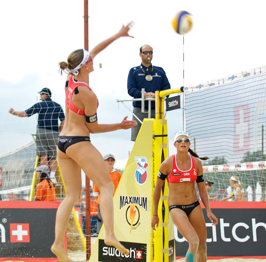 Grand Slam Moscow 2012